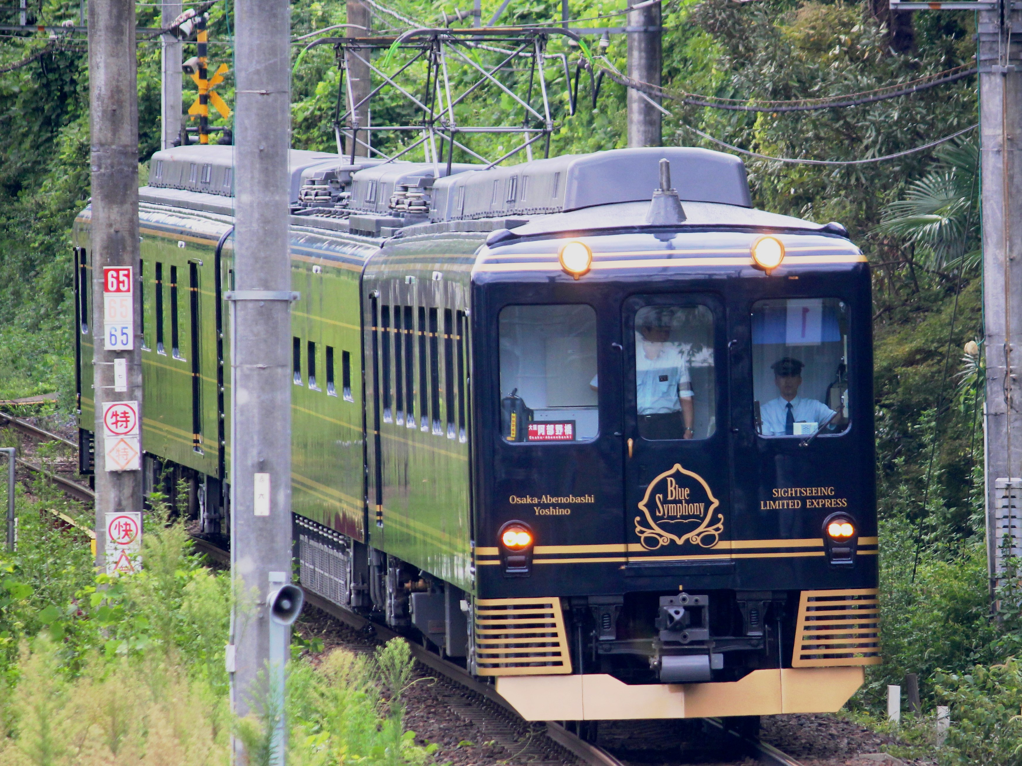 The Kintetsu 16200 series Blue Symphony EMU set on the Kintetsu Yoshino Line between Yoshinojingu and Toshino Stations